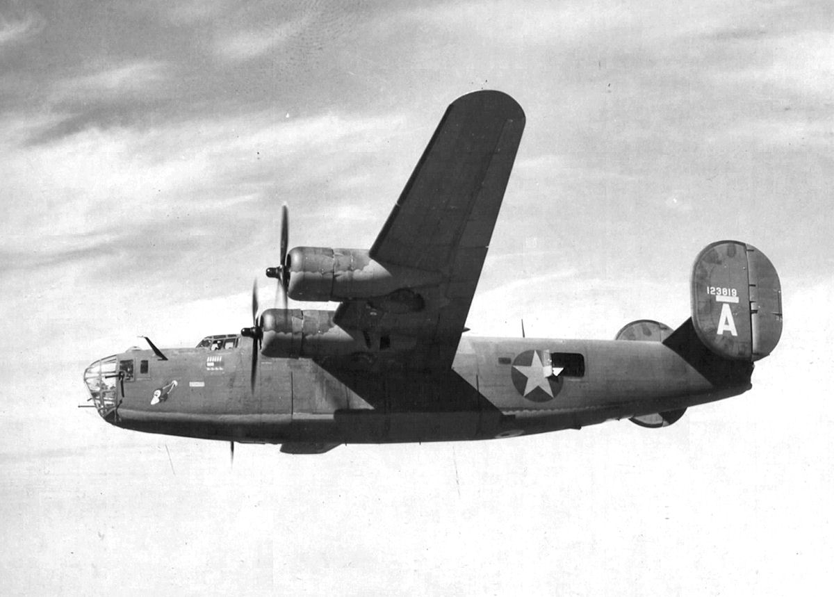 B-24D-5-CO Liberator s/n 41-23819 68th Bomb Squadron, 44th Bomb Group "The Flying Eightballs", 8th Air Force. Lost on the May 14,1943 mission to Kiel,Germany.